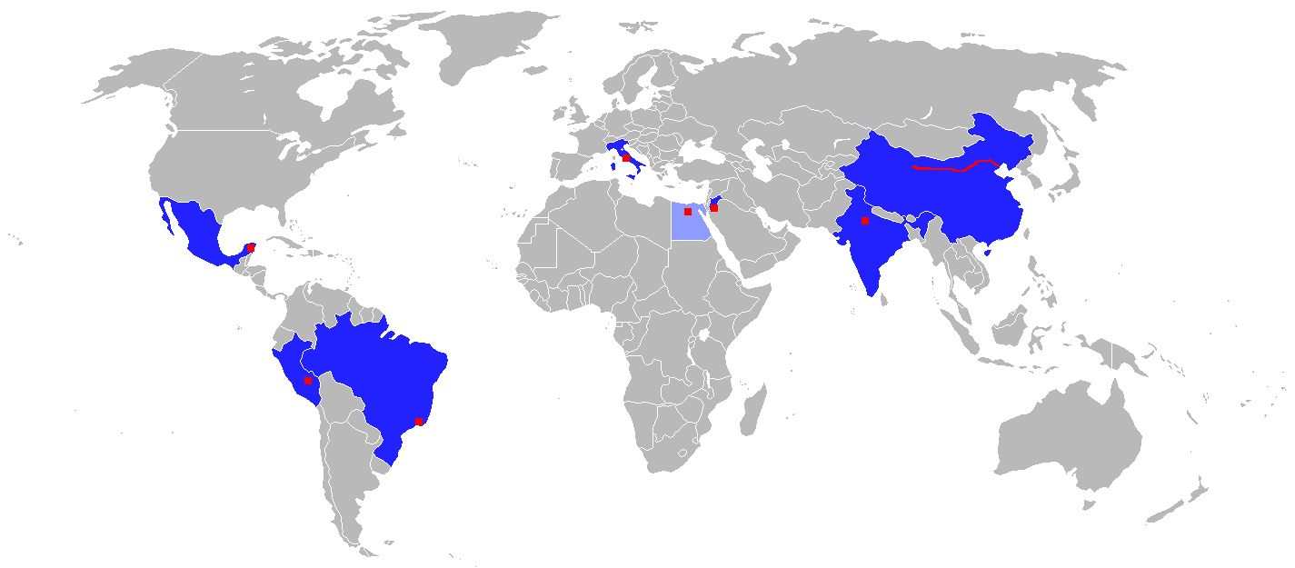 Winners of the New Seven Wonders of the World: Chichen Itza, Mexico. Christ the Redeemer statue, Brazil. Great Wall, China. Machu Picchu, Peru. Petra, Jordan. Roman Colosseum, Italy. Taj Mahal, India. Honorary Candidate, the Pyramids of Giza is shown for reference. This graphic was created with GIMP.